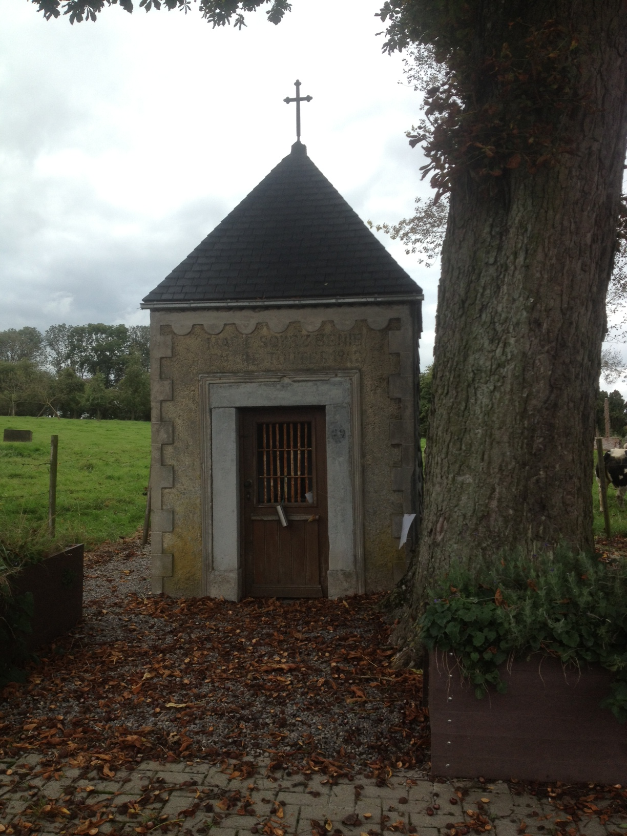 Chapelle Saint pompée Aineffe